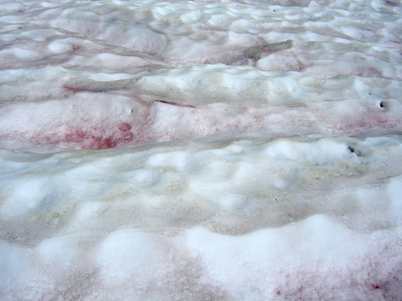 Snow field tinted by snow algae (Chlamydomonas nivalis) near Garibaldi Lake (British Columbia)